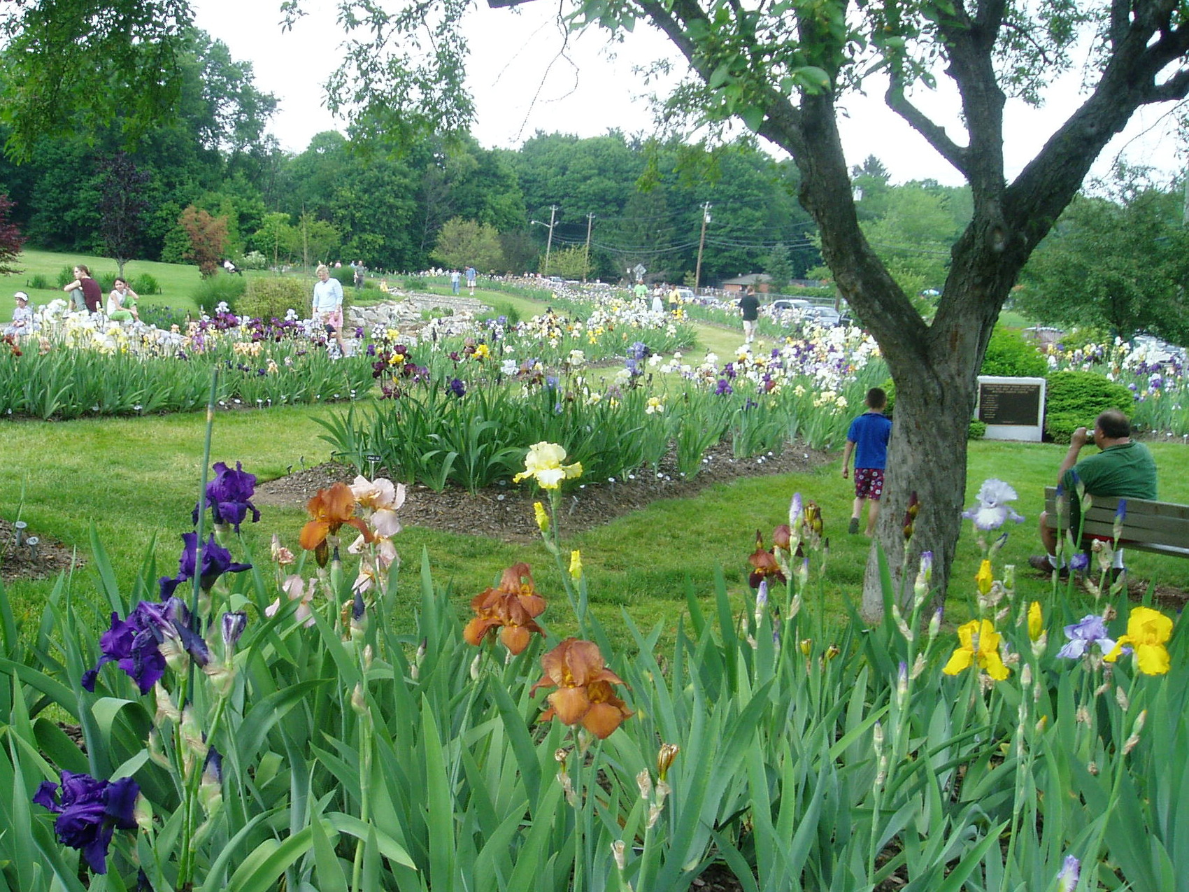 Presby Memorial Iris Gardens, Montclair, May 2006